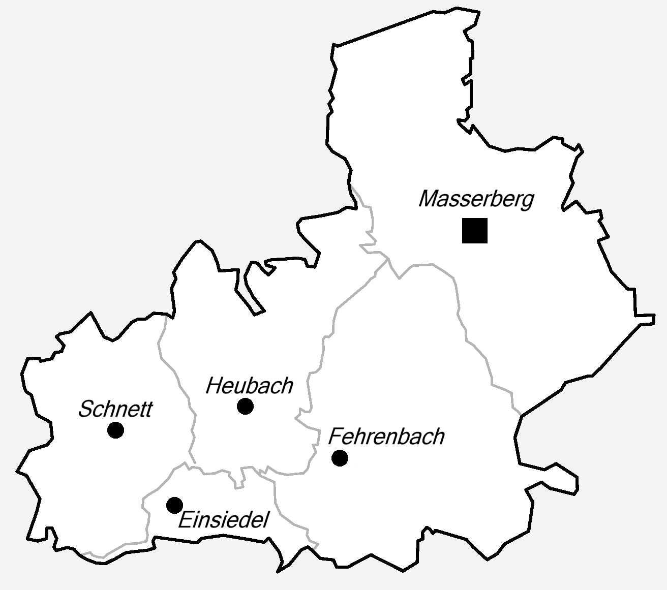 District-Maps of Masserberg in Thuringia.